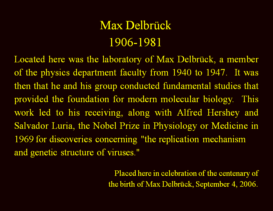 My drawing of a plaque in Buttrick Hall, Vanderbilt University commemorating the life of Max Delbruck, pioneer molecular biologist. See: Max Delbrück and the Next 100 Years of Biology: The Max Delbrück Vanderbilt Centenary Celebration, The Inaugural Vanderbilt Discovery Lecture, Held September 14, 2006